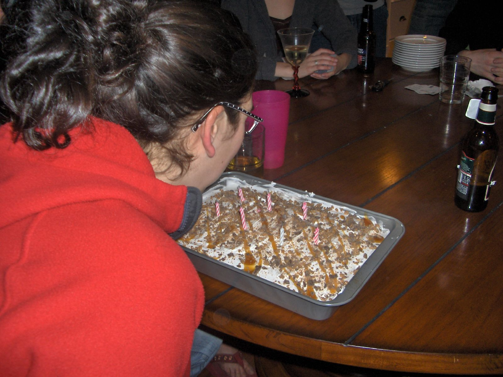 A cake typically consisting of yellow cake mix, a moist pineapple center, and whipped cream covering the exterior. Variations include addition of chocolate and other flavorings.